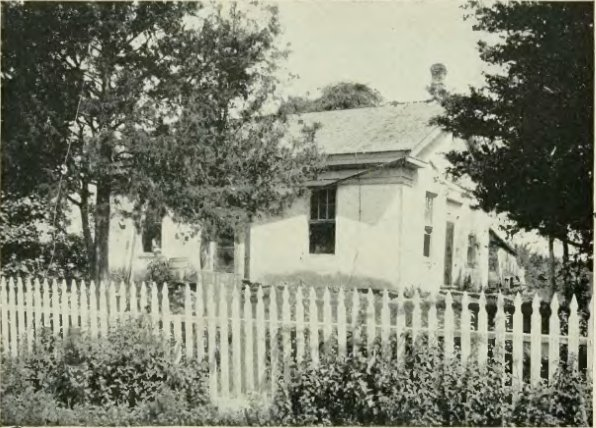 Illustration in History of Iowa From the Earliest Times to the Beginning of the Twentieth Century